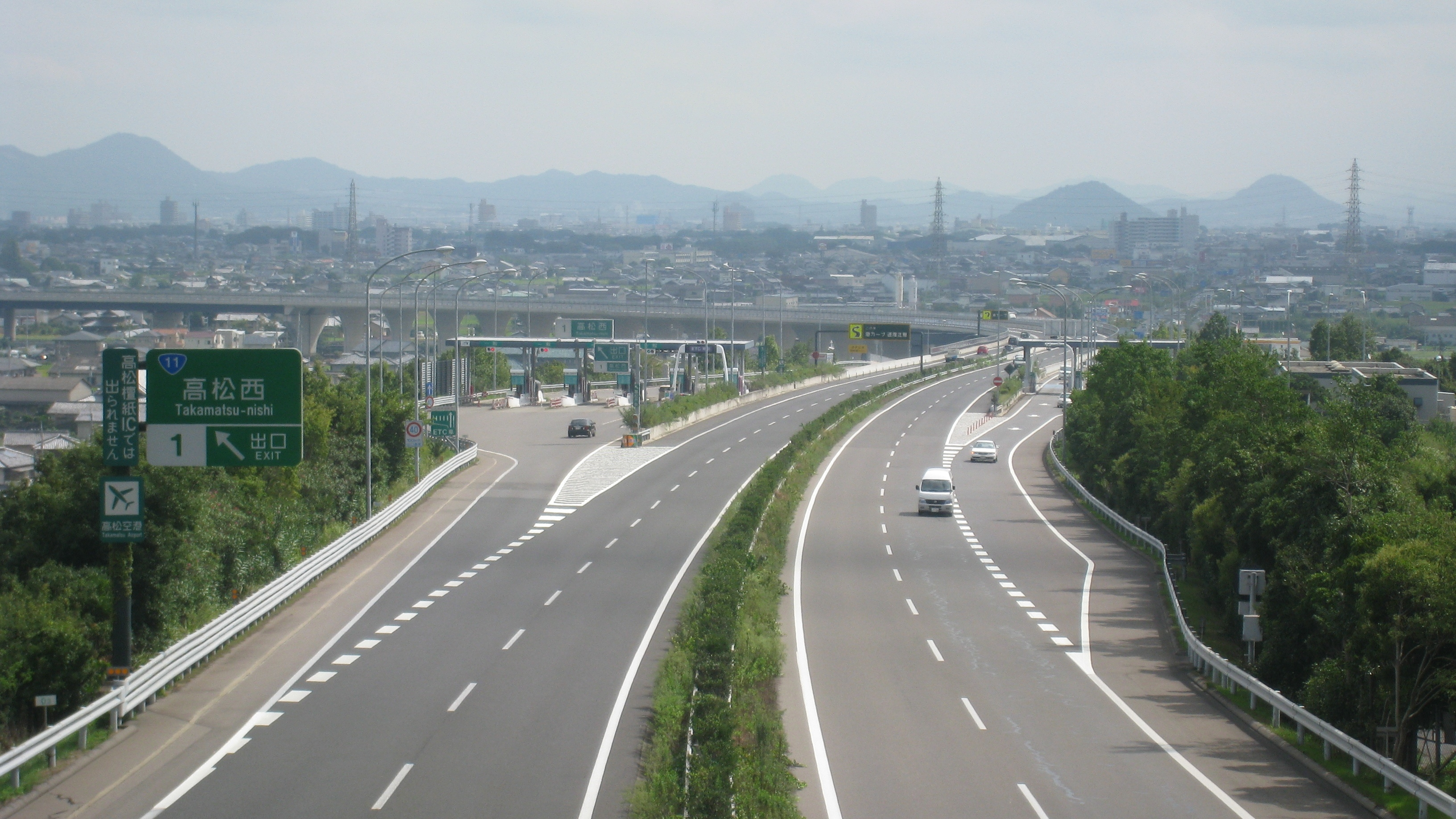 Takamatsu-Nishi interchange in Takamatsu, Kagawa Japan